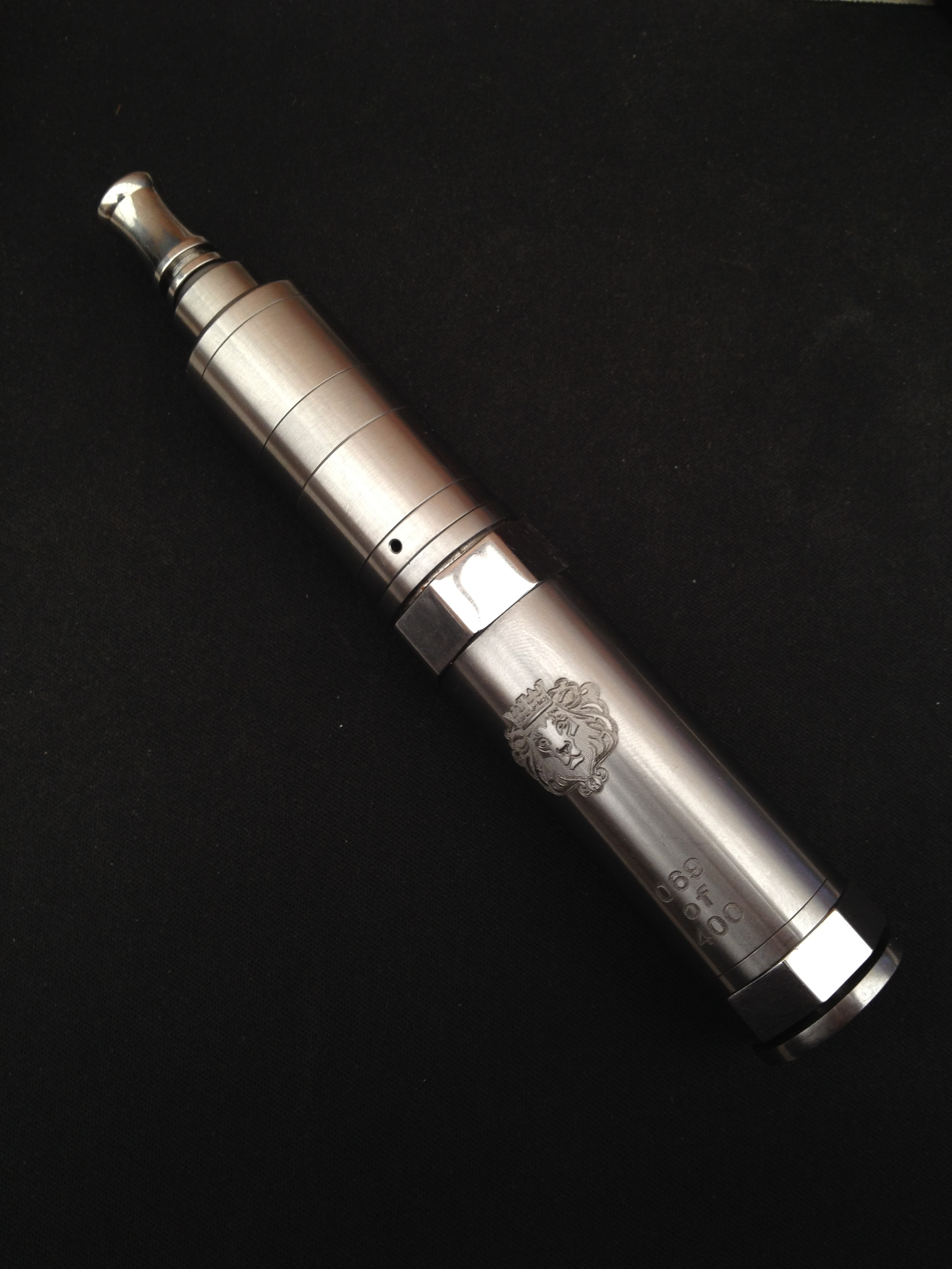 An eletronic cigarette or PV "personal vaporiser" consisting of a battery tube, mechanical switch and a rebuildable silica atomiser.